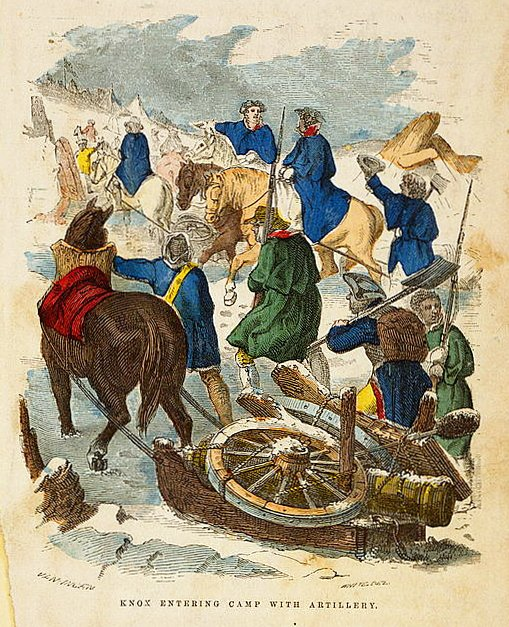 "Knox entering camp with artillery". Henry Knox on horseback with soldiers transporting a disassembled canon on a sled through the snow, winter 1775-76, following his famous capture of artillery at Fort Ticonderoga. Wood engraving, hand-colored.